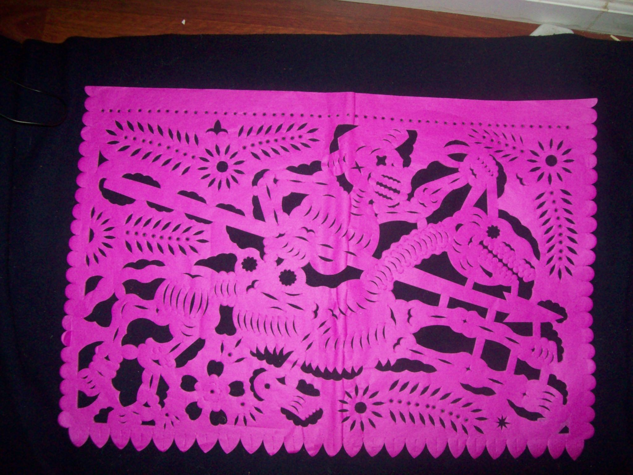 day of the death quijote